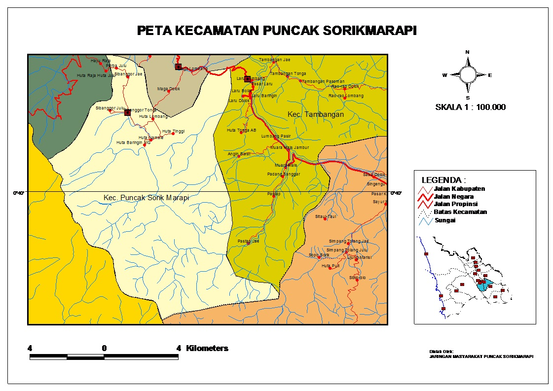 Subdistric Sorikmarapi Highland with Batang Gadis National Park